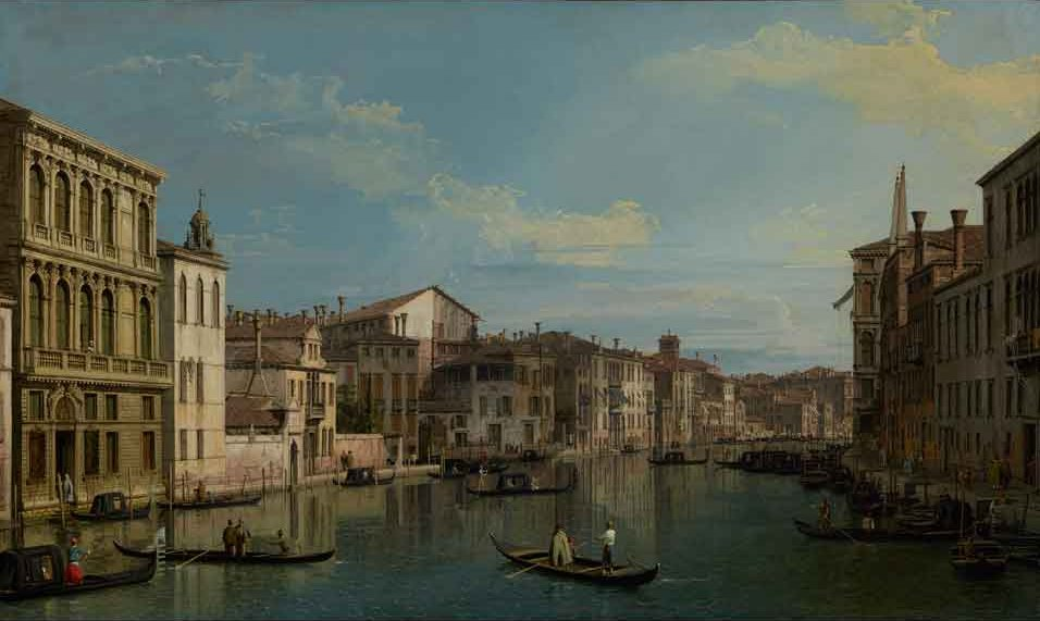 The Grand Canal in Venice from Palazzo Flangini to Campo San Marcuola, about 1738. Giovanni Antonio Canal, known as Canaletto Oil on canvas. J. Paul Getty Museum, Los Angeles